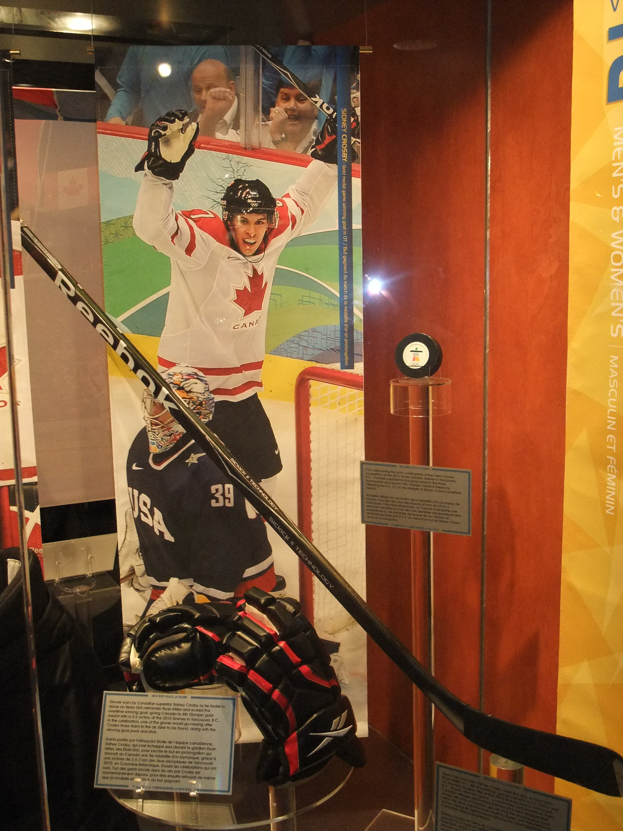 Stick, gloves and puck that won gold in ice hockey the 2010 winter olympics for Canada